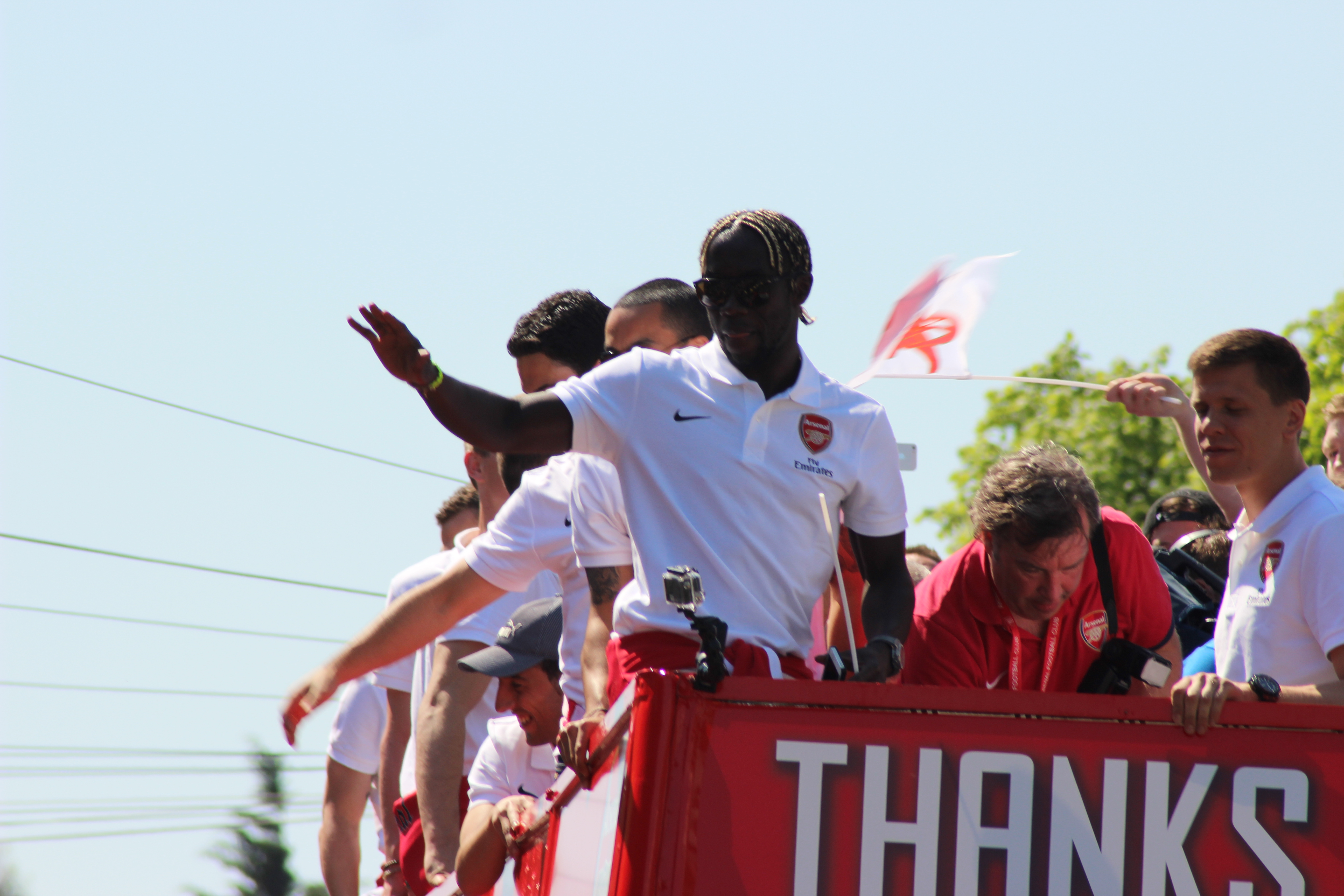 Bacary Sagna of Arsenal thanks the fans for coming along to the parade